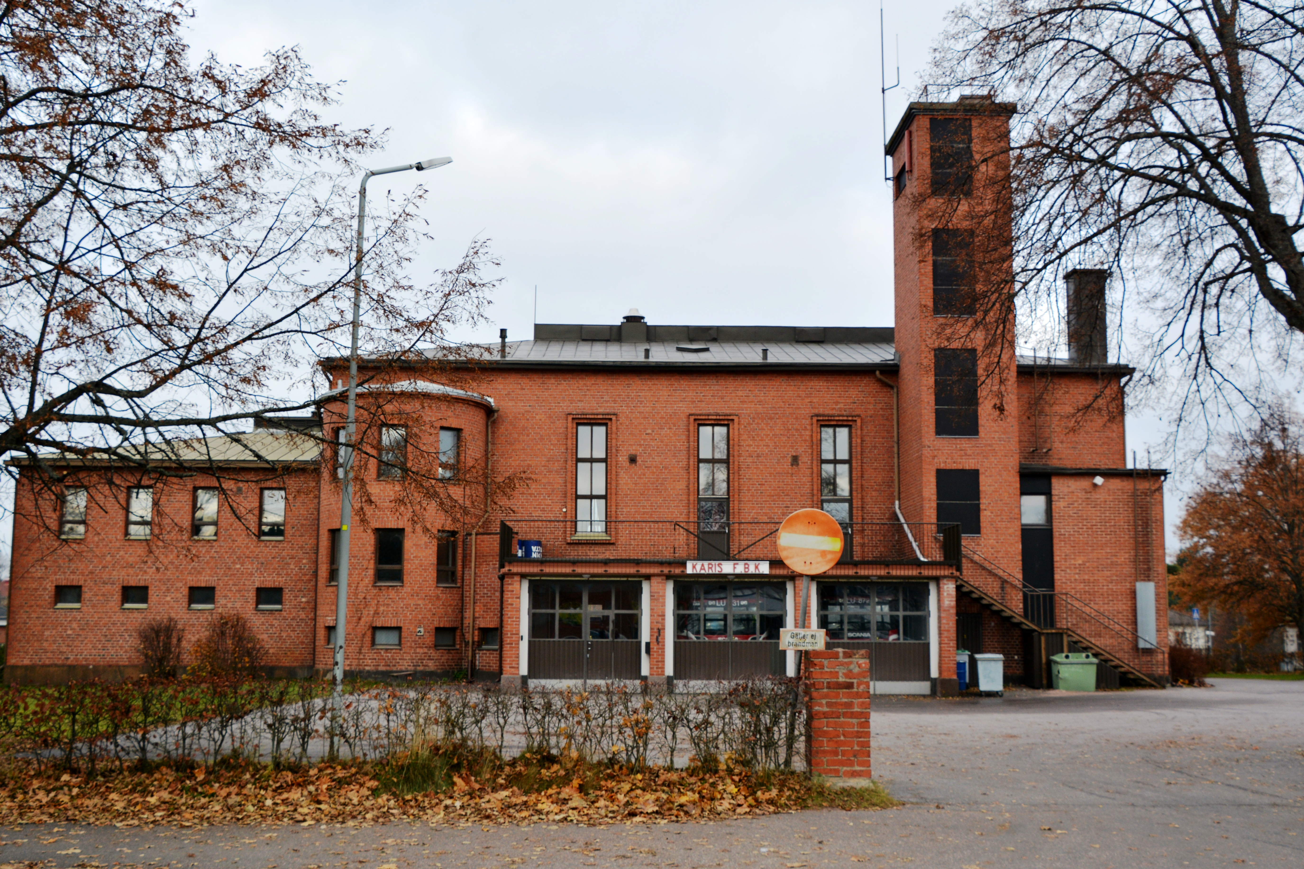 Fire station of the Volunteer fire department in Karis, Raseborg, Finland